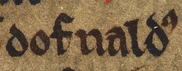 An excerpt from folio 47v of British Library MS Cotton Julius A VII (the Chronicle of Mann). The excerpt reads in Latin "Dofnaldus". The excerpt may refer to Domhnall mac Raghnaill.